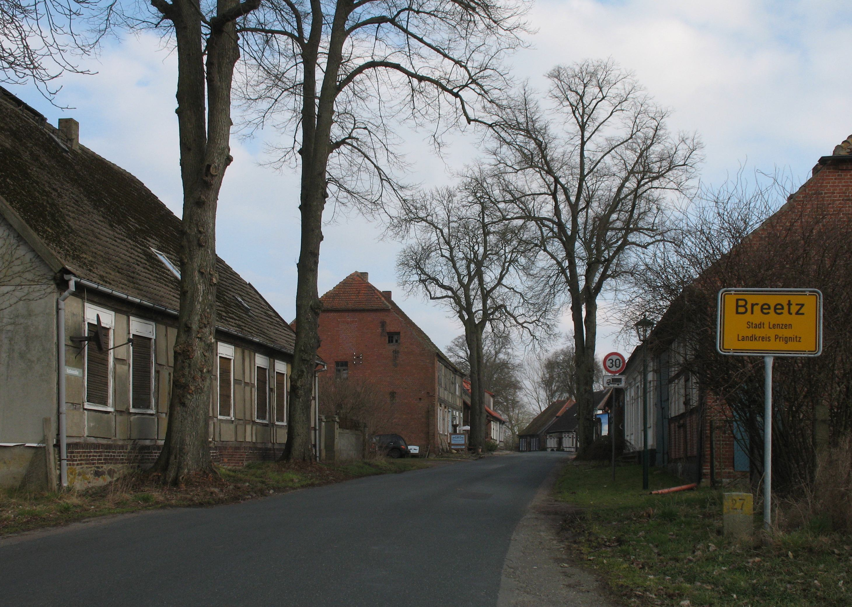 Kastanienallee in Lenzen in Brandenburg, Germany